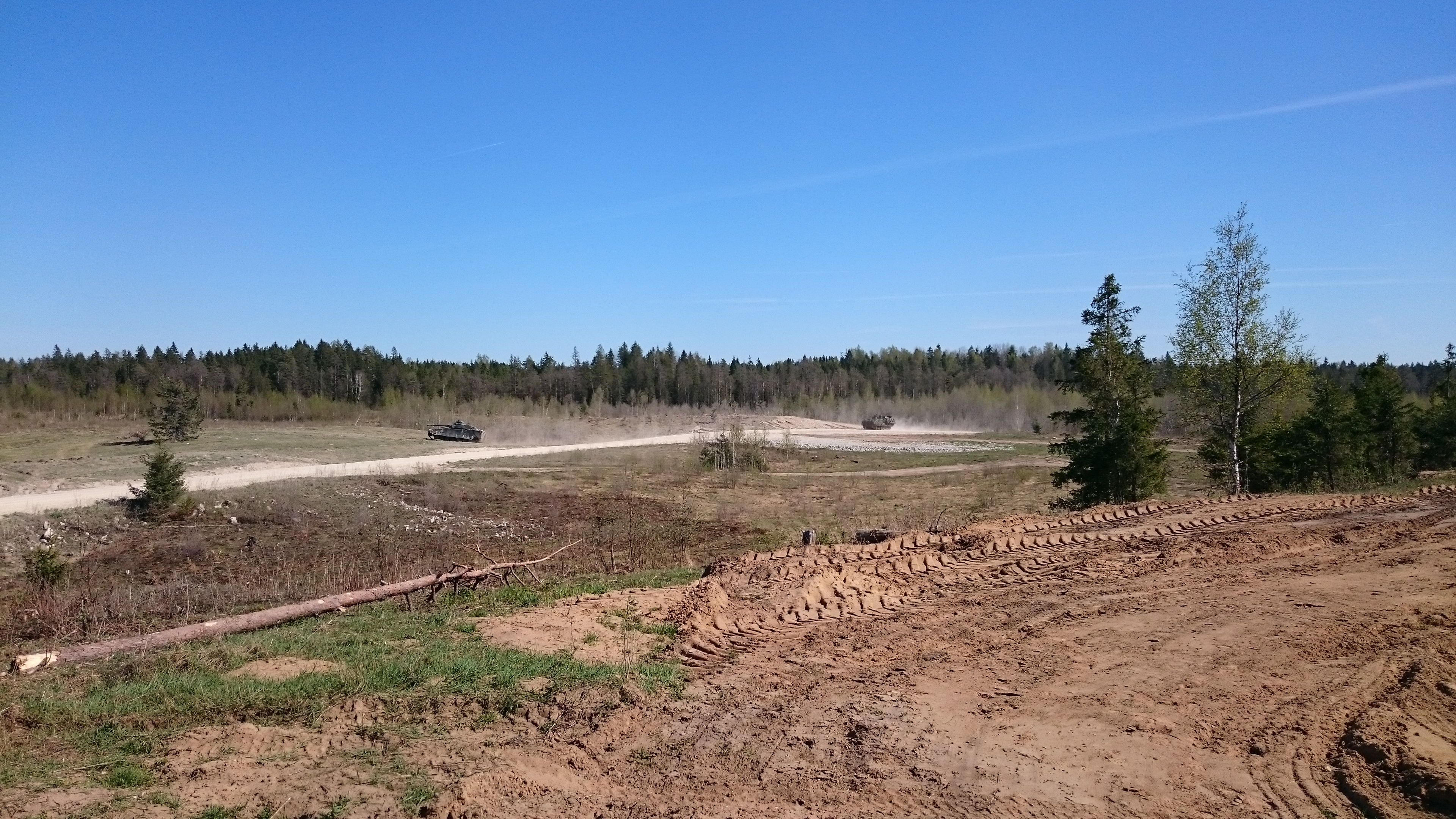 Military training in Keskpolügoon.